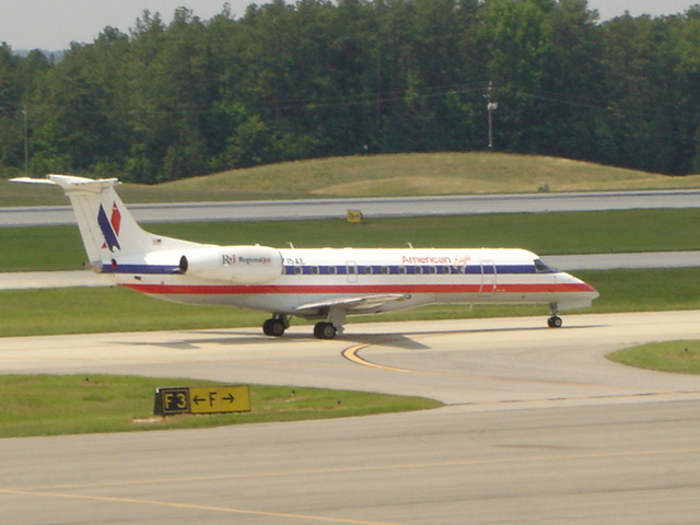 Taken by RJ